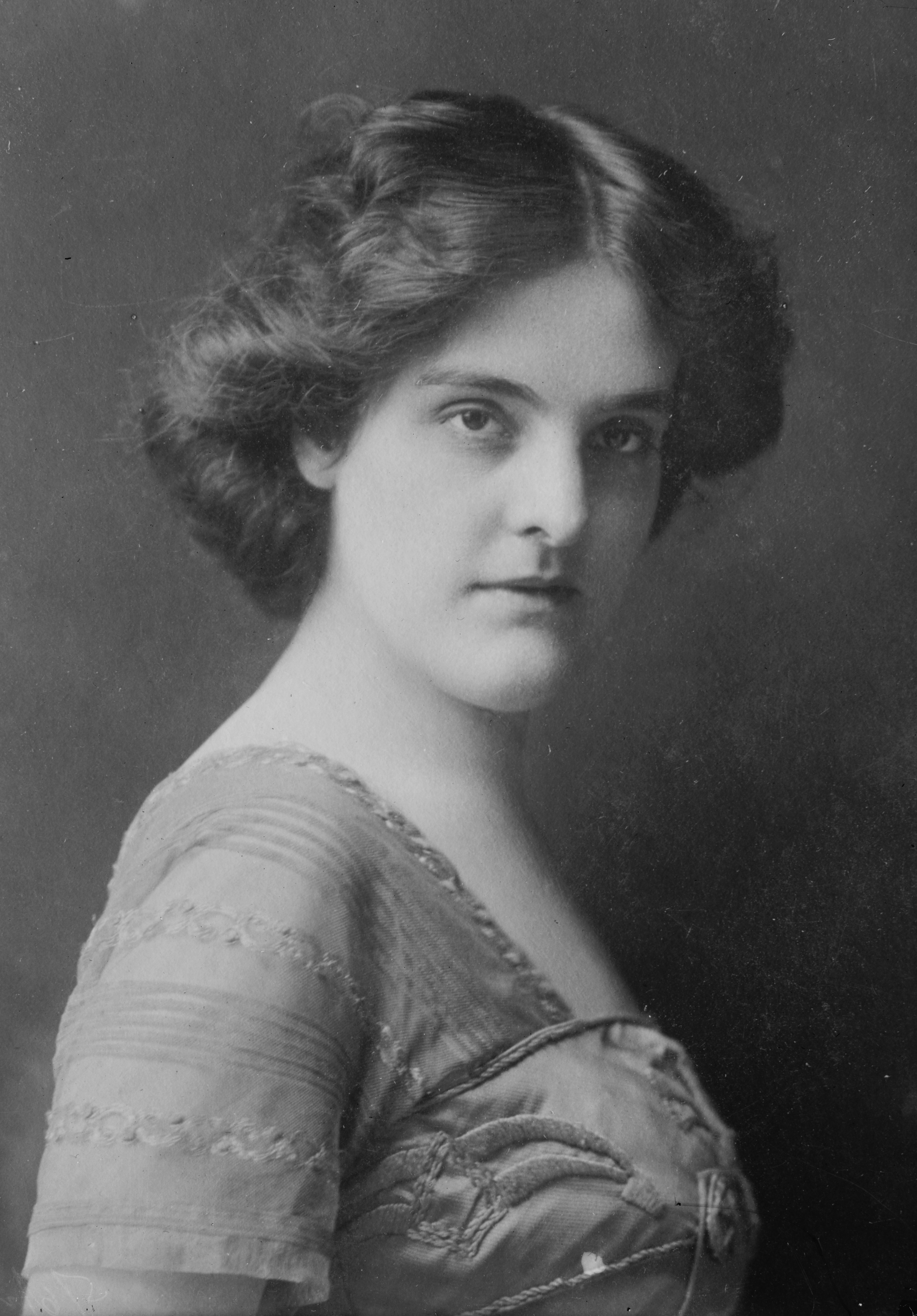 Thais Lawton, from the George Grantham Bain Collection, Library of Congress.